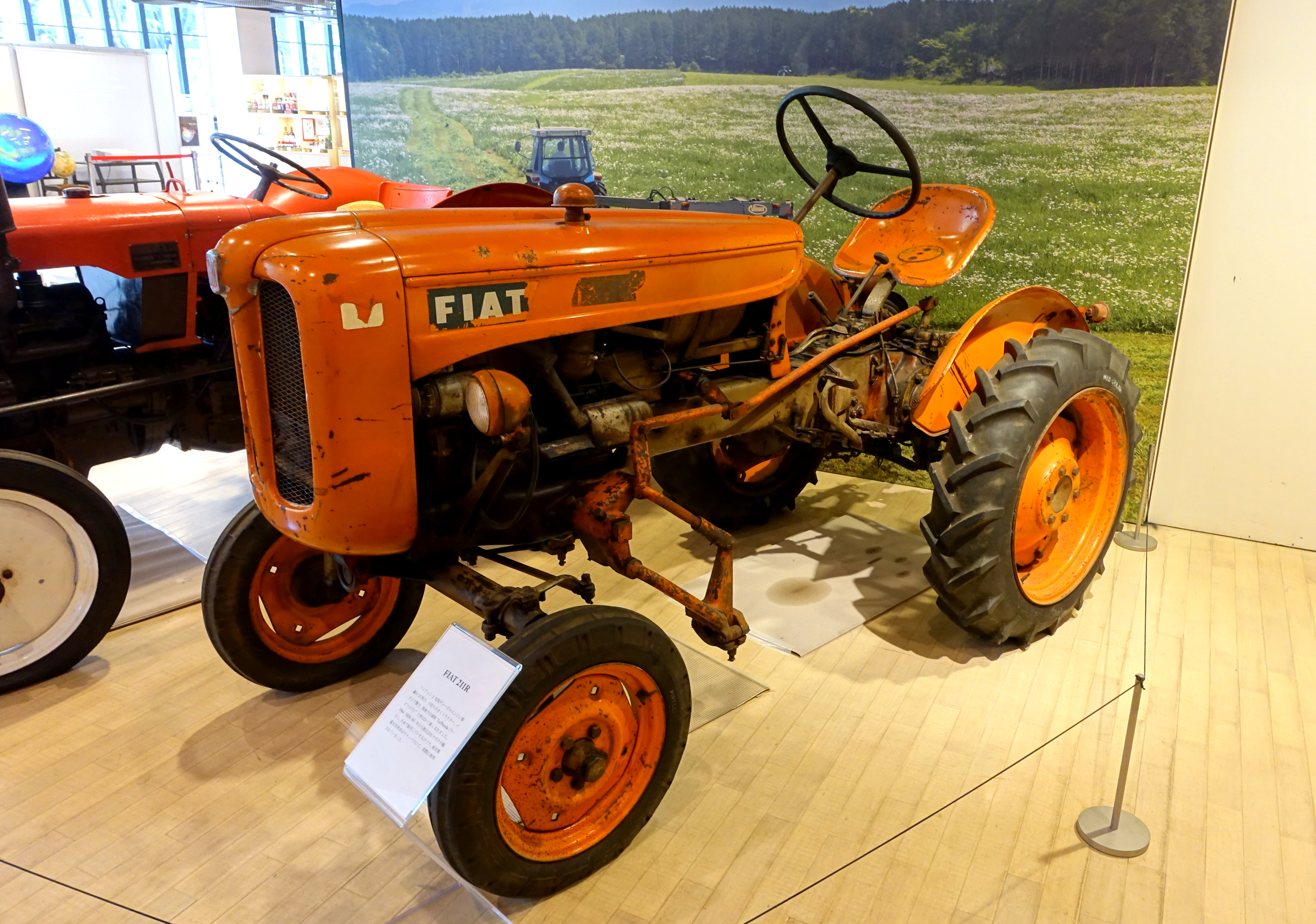 Exhibit in the Food and Agriculture Museum - Setagaya, Tokyo, Japan.